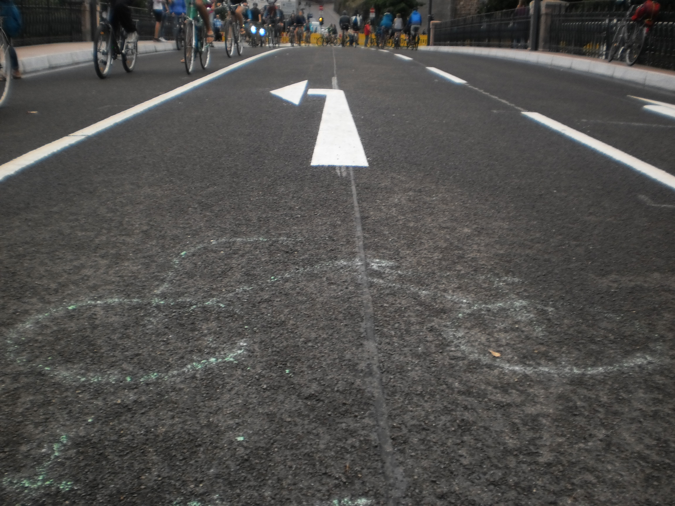 Reopening of restored oldest bridge over river Lahn Weidenhäuser Brücke in old university city Marburg with Cycling people in evening of August 11, 2019, one day after the festivities. A Critical mass event took place, seems like using one of the other new cycling boulevards in Germany, but here the motorized and bicycle traffic are both integrated: The white marked line on the street shows car drivers not to pass by a cyclist, here they drive along as a group side by side from the West bank (with old town) to the former village Weidenhausen on East bank of river Lahn in Marburg. The white arrow with a turn to the left, marked on the new surface of the street, shows the way to the next street 'Universitätsstrasse' beginning below of nearby Old university (in background of the right side).